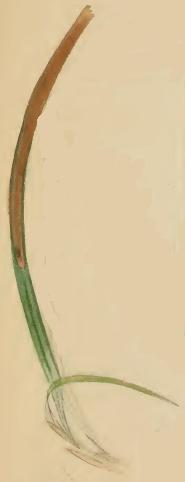 Stainton’s Natural History of the Tineina (1855–1873): Elachista gleichenella mined leaves of Carex echinata